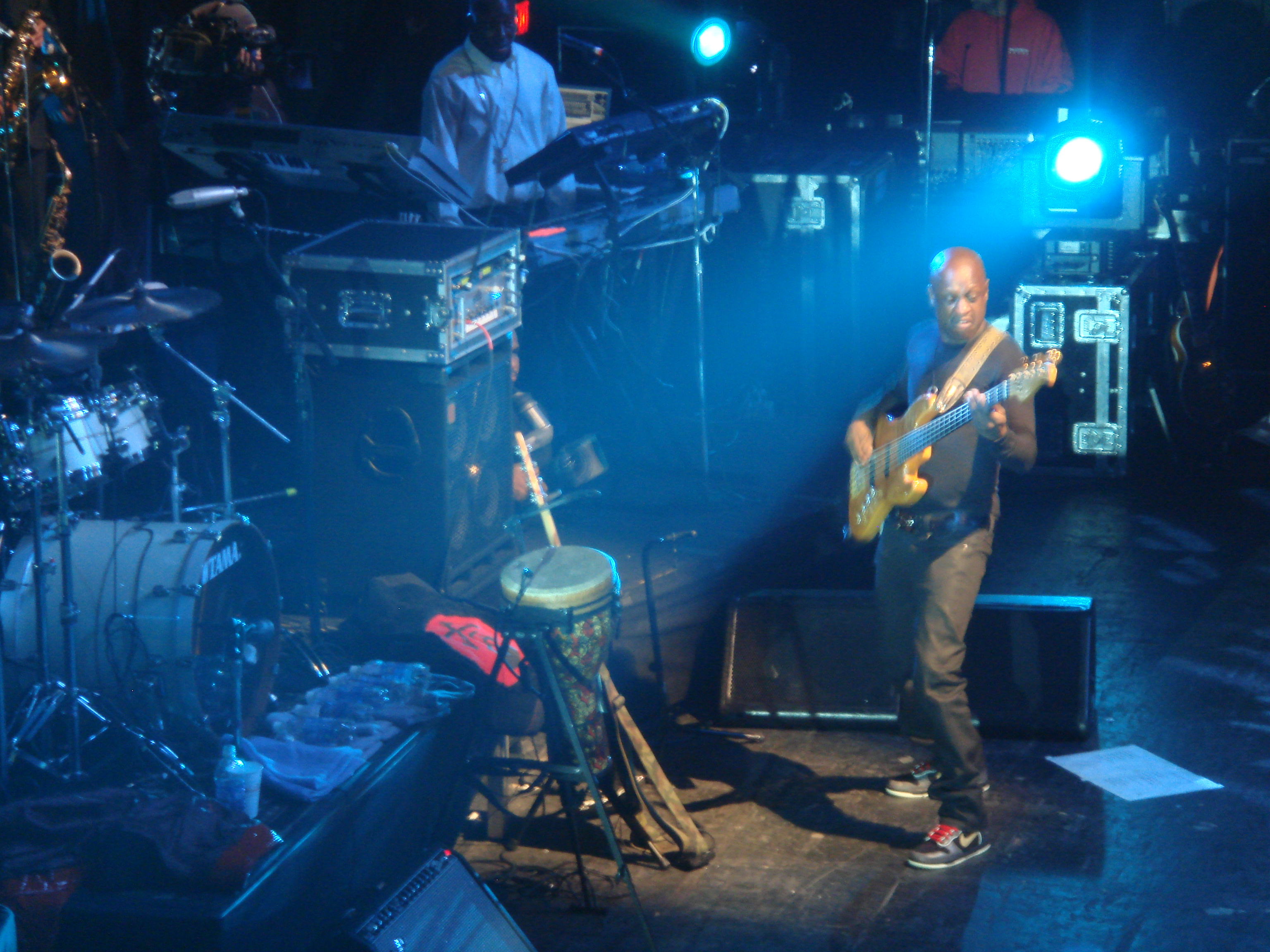 Jerry Wonda performing on stage.